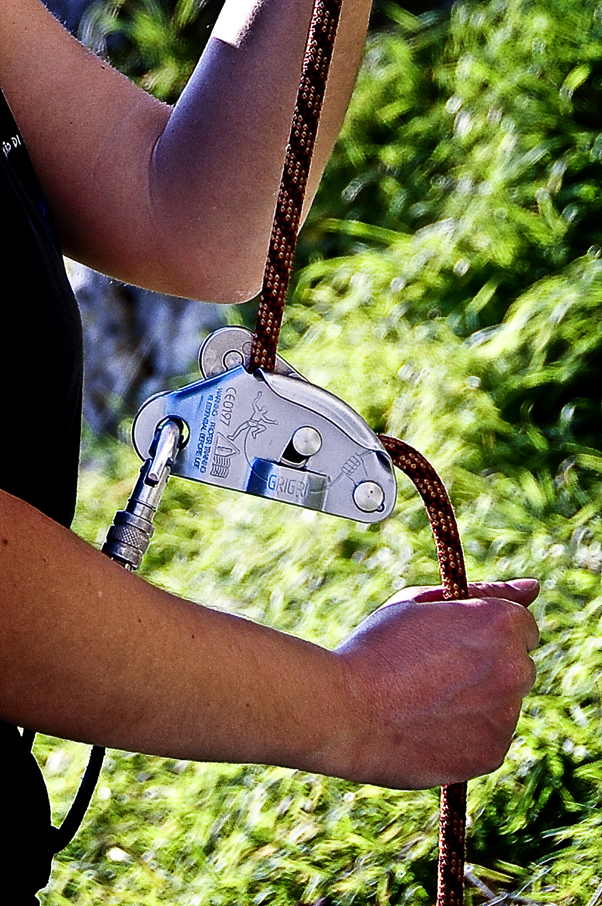 Static belaying with grigri